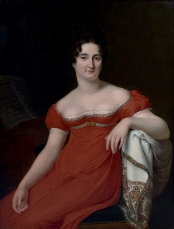 Mademoiselle George (1787–1867), French stage actress.